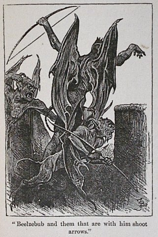 "Beelzebub and them that are with him shoot arrows." an illustration from the Henry Altemus edition of The Pilgrim's Progress by John Bunyan, published in 1678. Illustrations by Fred Barnard, J.D. Linton, W. Small, etc. Engraved by Dalziel Brothers. Listed in public domain index: [1].